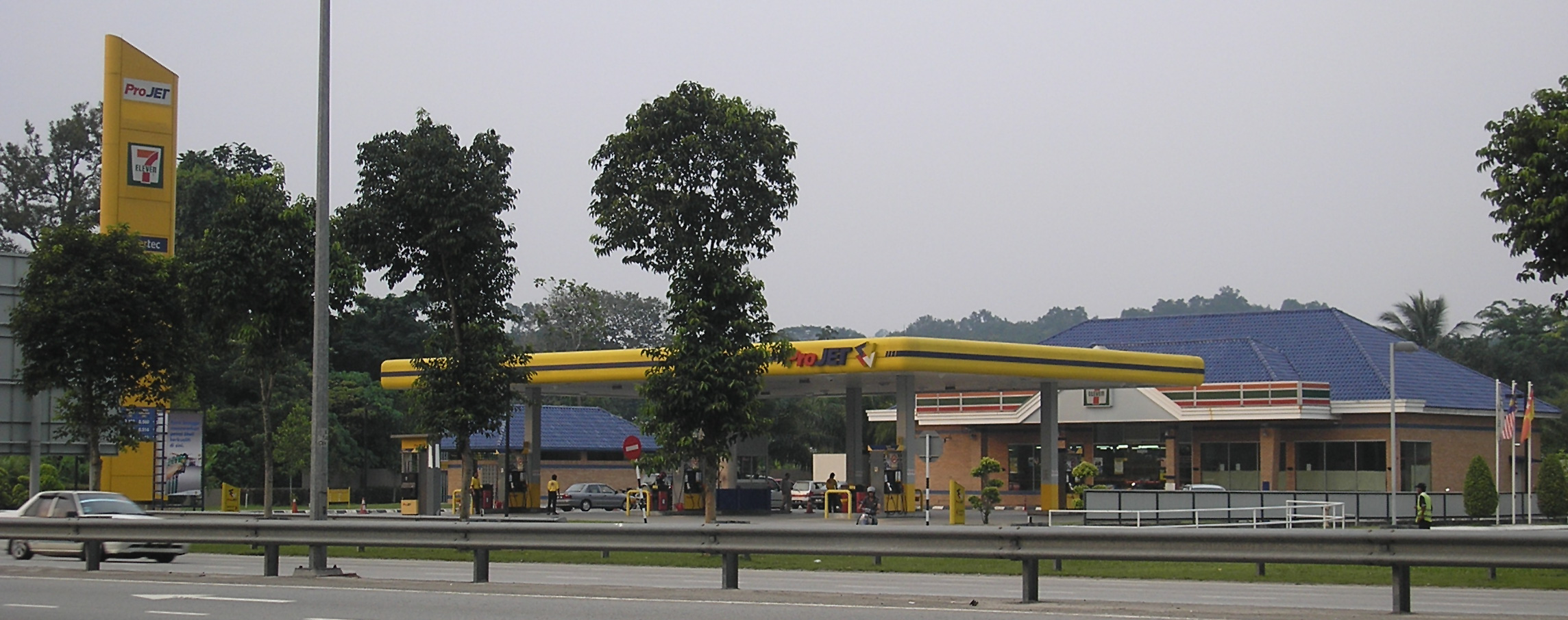 A ProJET petrol station along the Cheras-Kajang Expressway (not sure of the exact point in the expressway, but it is somewhere before Balakong, northbound), Malaysia.